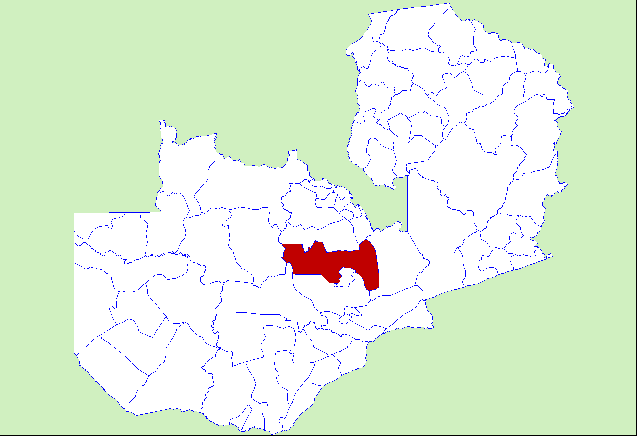 District locator in Zambia